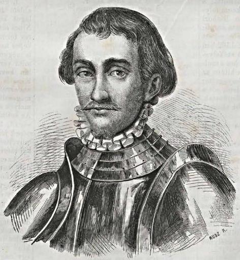 Portrait of Zsigmond János